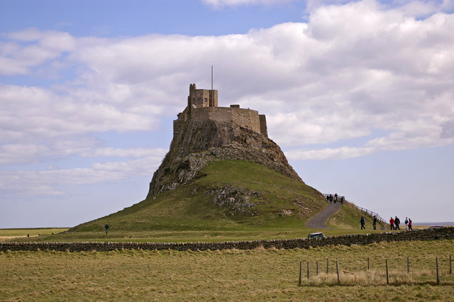 Lindisfarne Castle, Holy Island, Northumberland On a fine day Lindisfarne Castle is beautiful sight at the end of the long walk from the village.